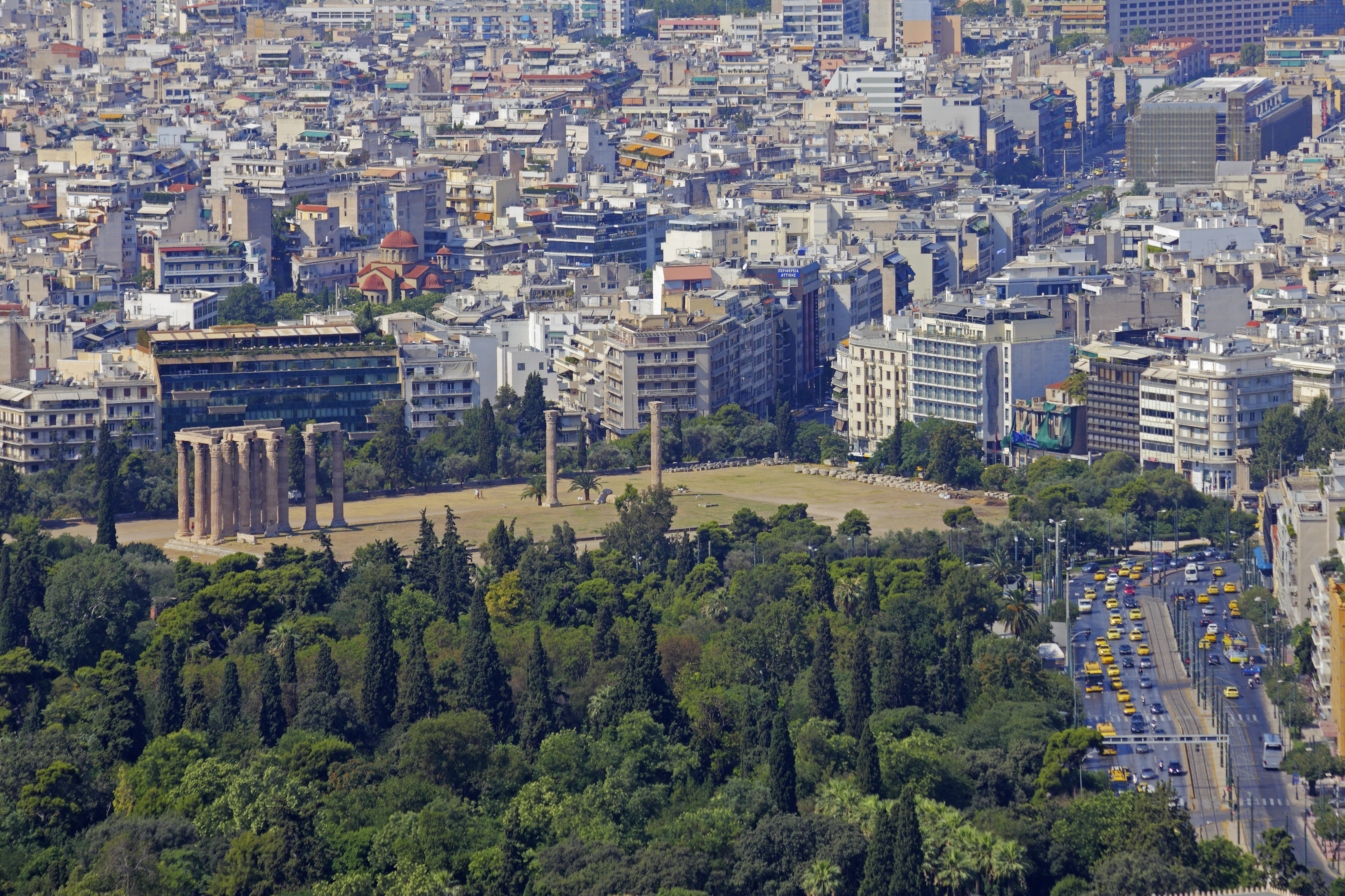 View from Lycabettus in Athens (Attica, Greece) – Temple of Olympian Zeus